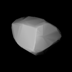 3D convex shape model of 3247 Di Martino, computed using light curve inversion techniques. J. Hanuš, J. Ďurech, M. Brož, B. D. Warner (June 2011). "A study of asteroid pole-latitude distribution based on an extended set of shape models derived by the lightcurve inversion method". Astronomy and Astrophysics 530: A134. ISSN 0004-6361. arXiv